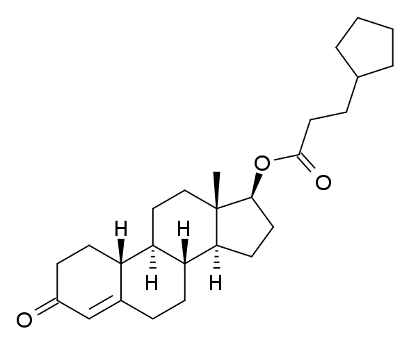 Structure of nandrolone cypionate